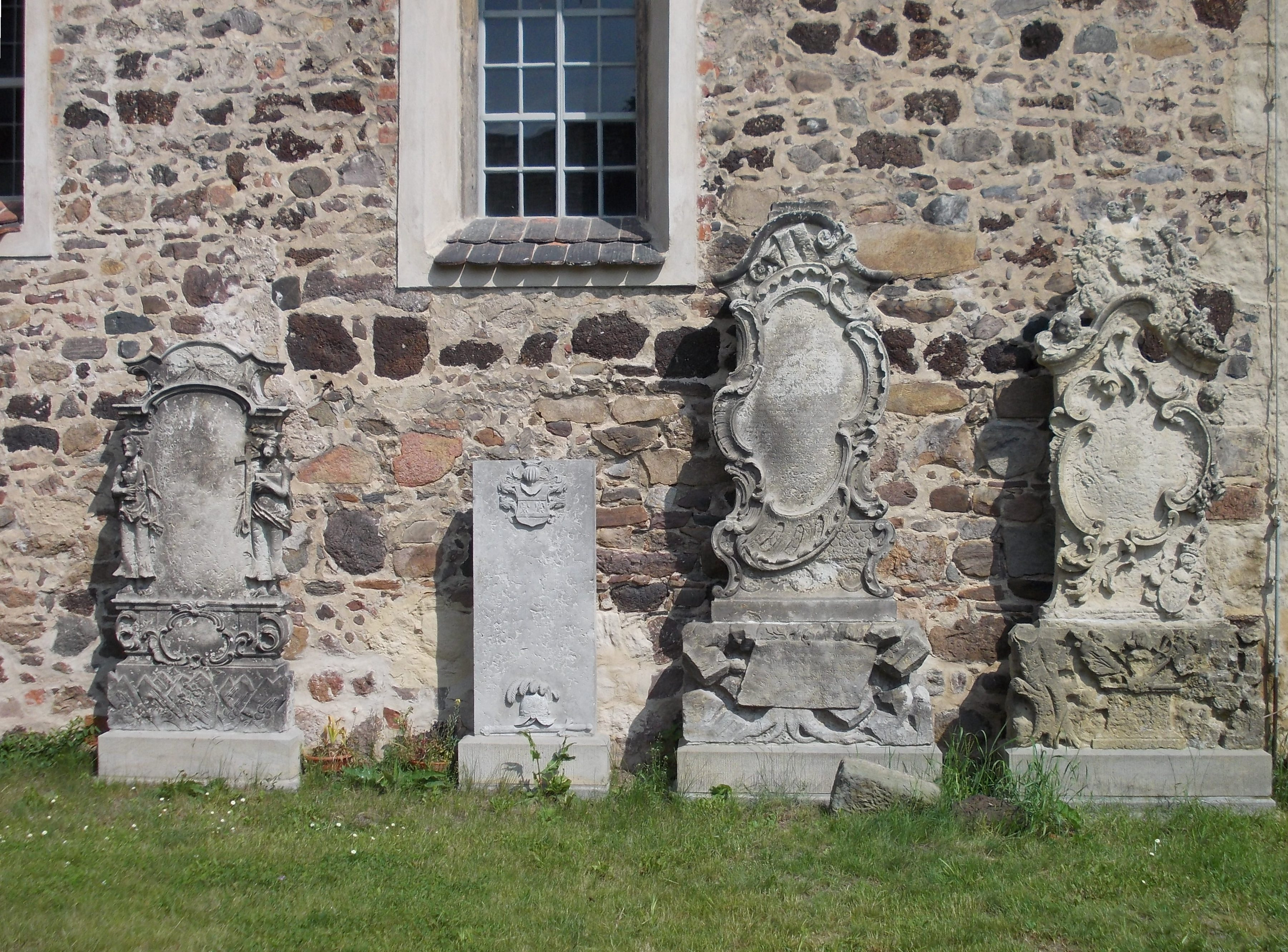 Gravestones at Klitzschen church (Mockrehna, Nordsachsen district, Saxony)